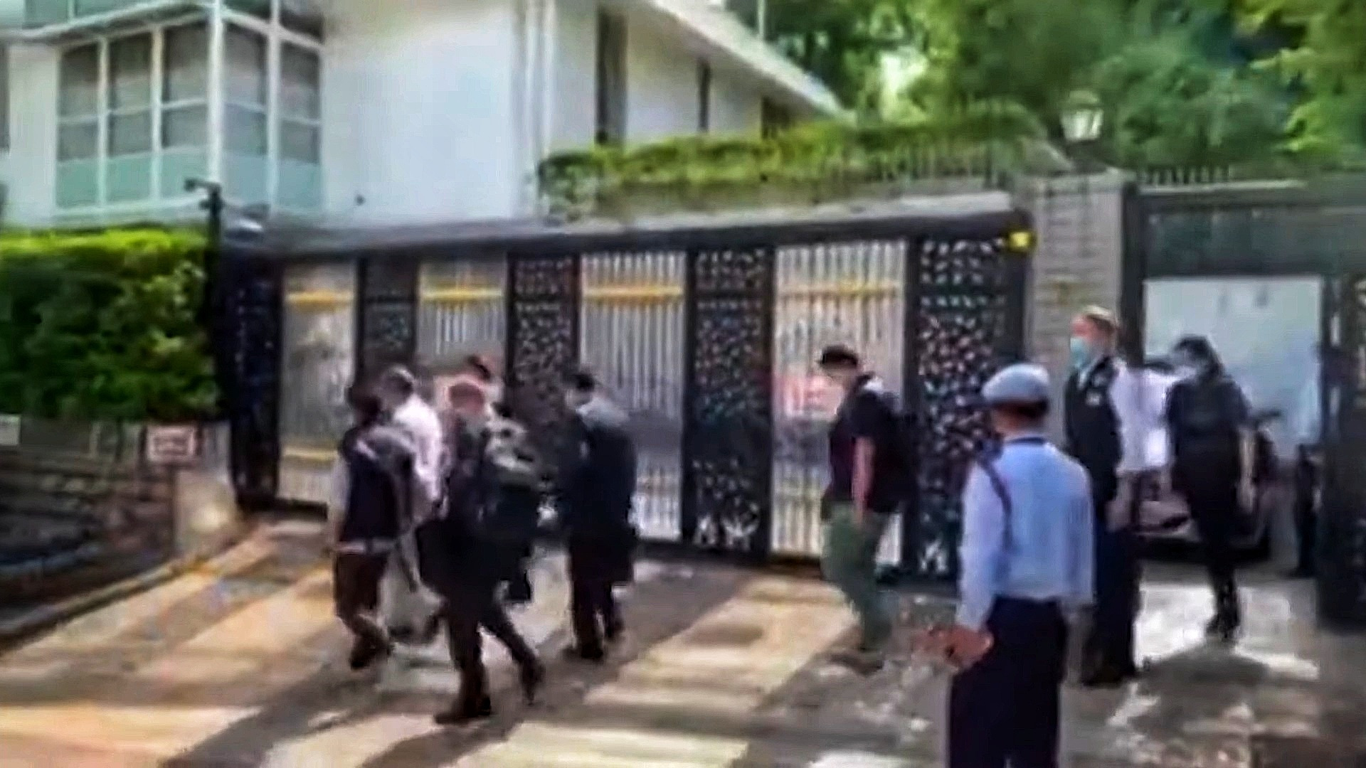 Jimmy Lai Chee Ying was arrested